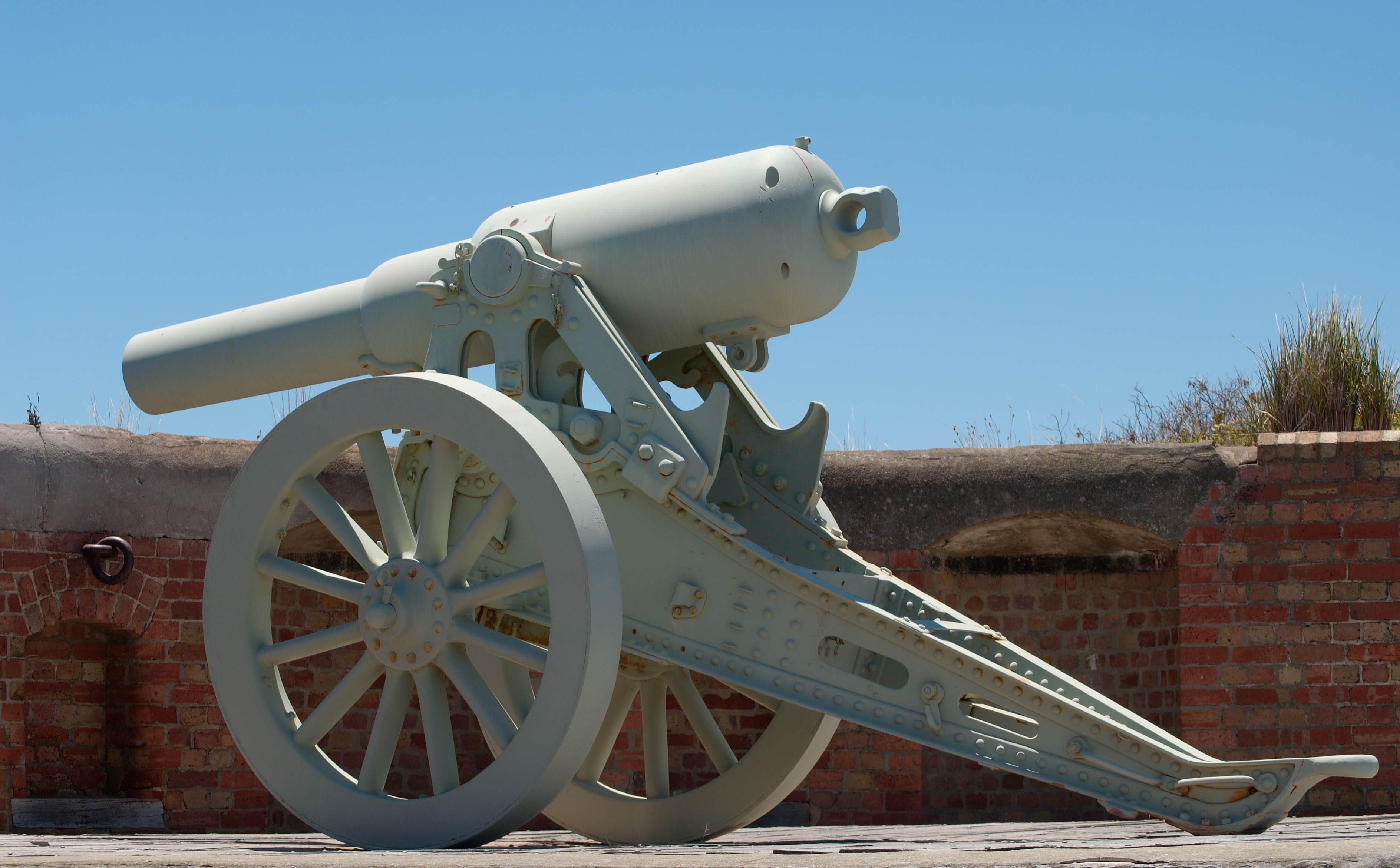 64 pounder, 64 cwt, Rifled Muzzle Loading Mk3 (1867 pattern) gun. The gun was manufactured by the Royal Gun Factory, Woolwich, England. Historical display at Fort Glanville, South Australia